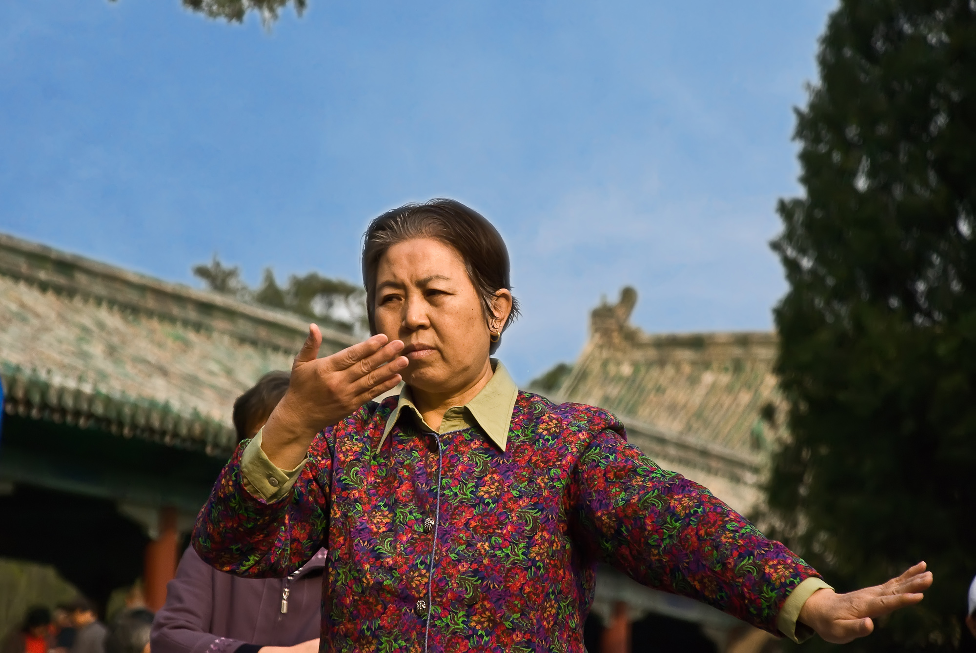 A Woman does tai chi.